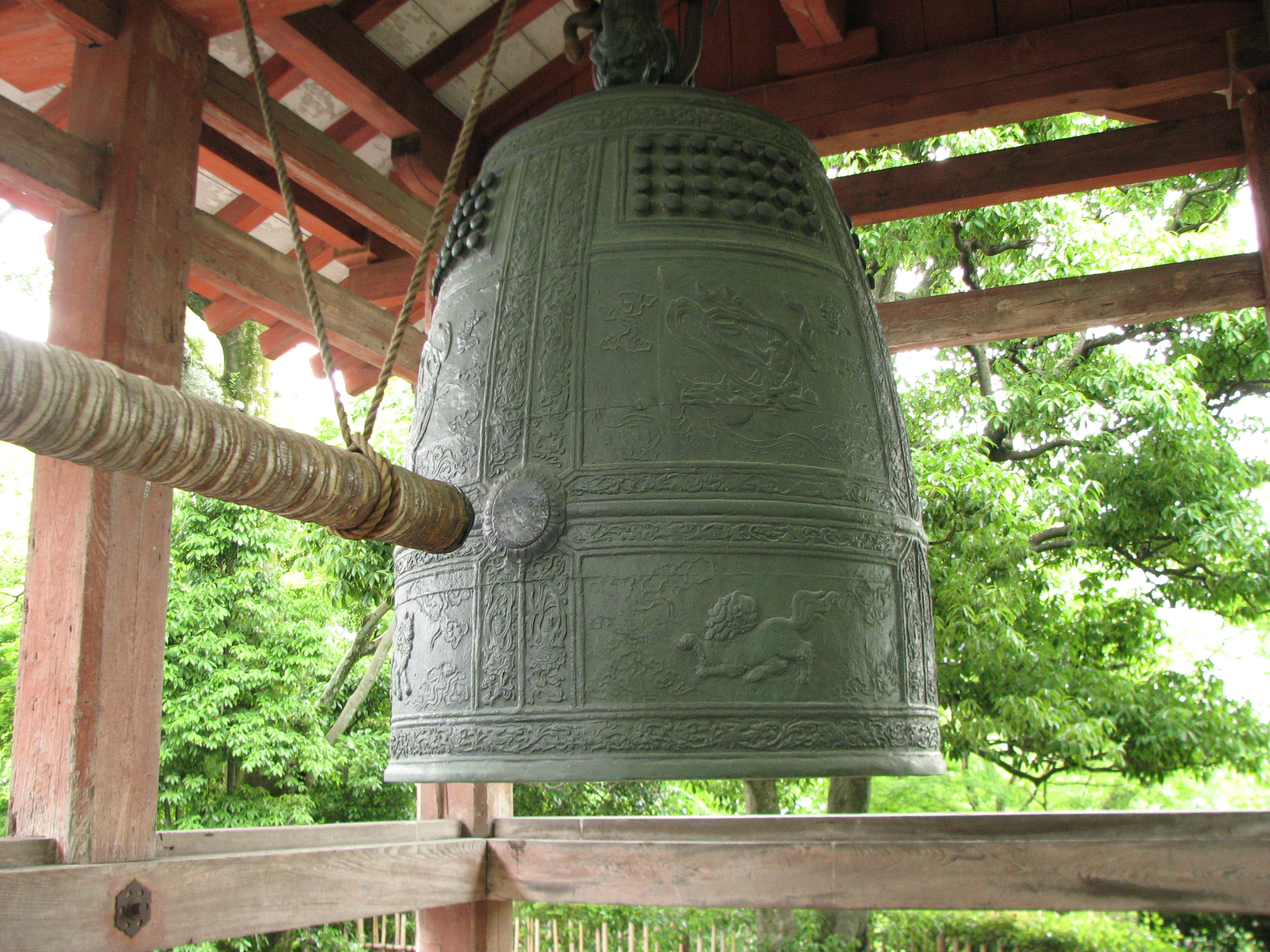 The temple bell at Byodoin